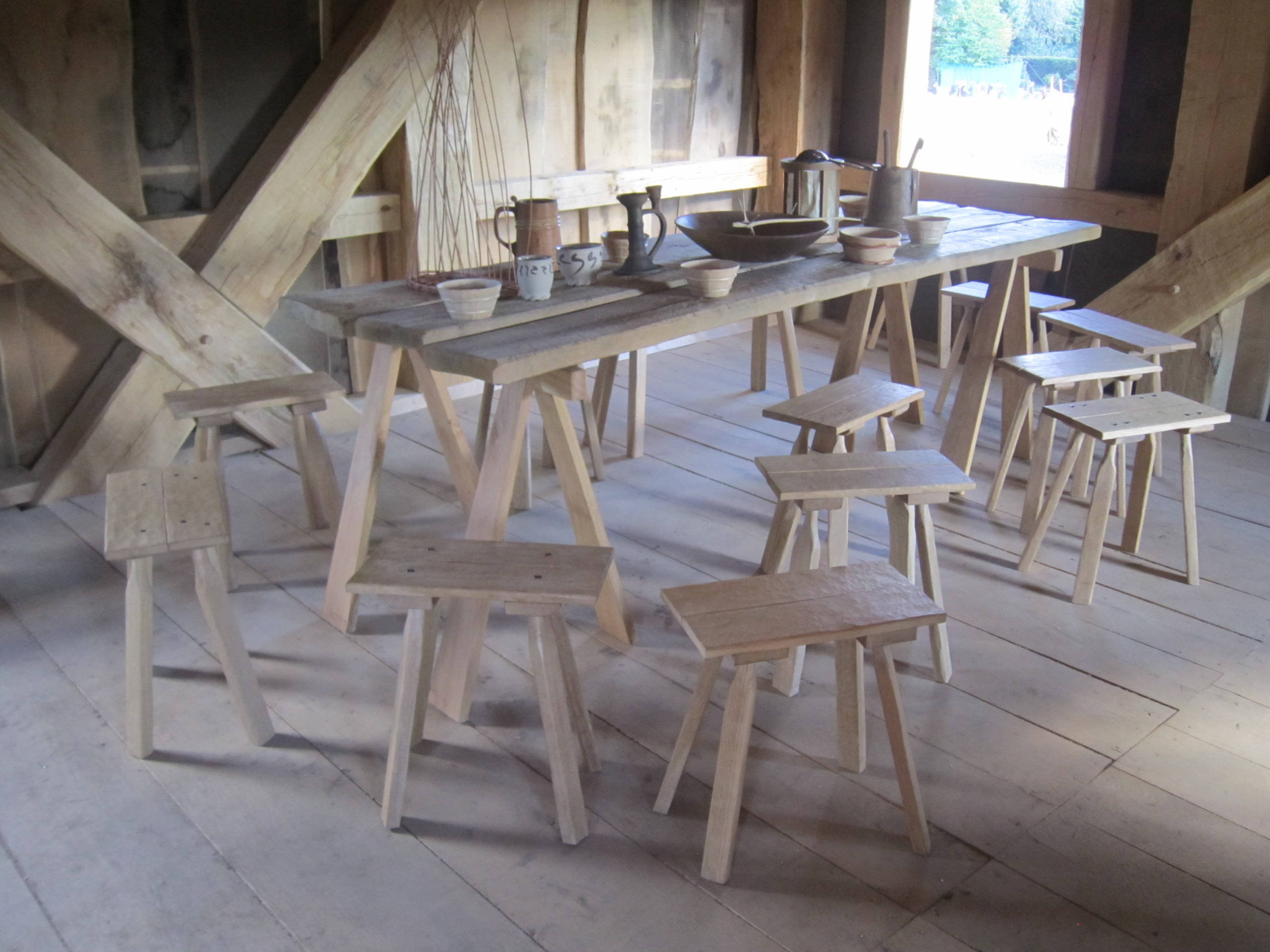 Interior of the castle tower of Castrum Vechtense in Vechta during the "Burgmannen-Tage" (medieval festival) 2013